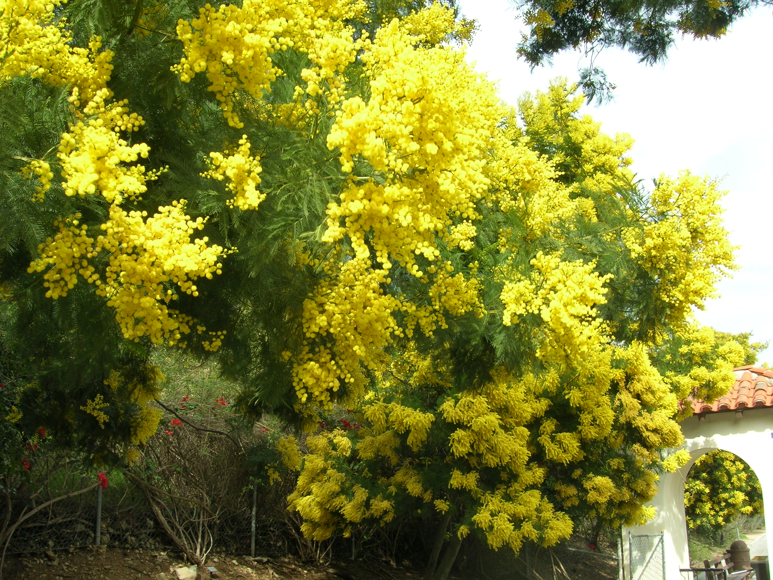 Acacia decurrens — Green Wattle Tree; Fabaceae. At the Wrigley Botanical Garden, on Catalina Island, Los Angeles County, California. i020606 104